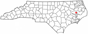 Category:North Carolina Dot Maps